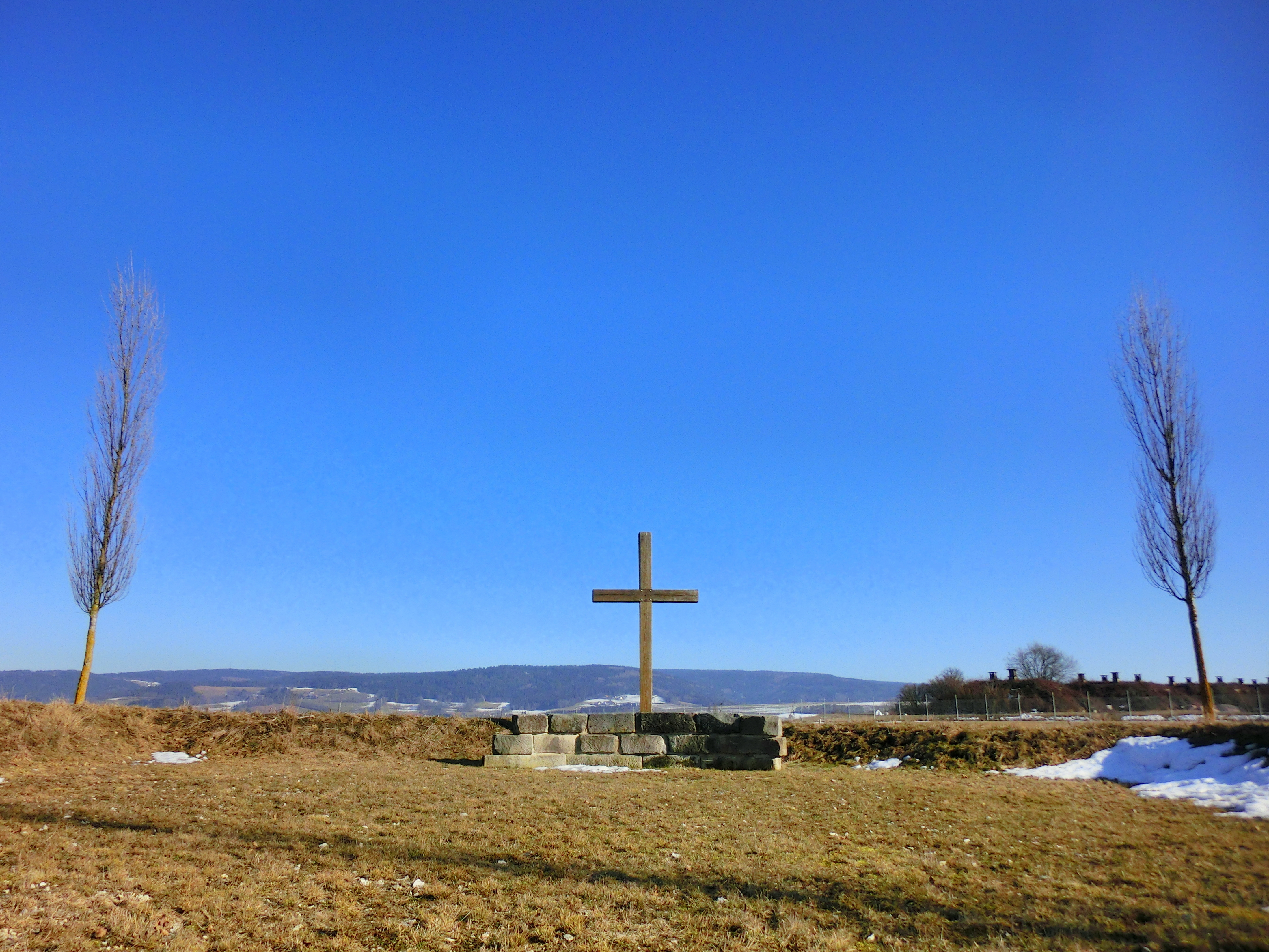 Erinnerungsstätte für das ehemalige Kloster St. Jobst